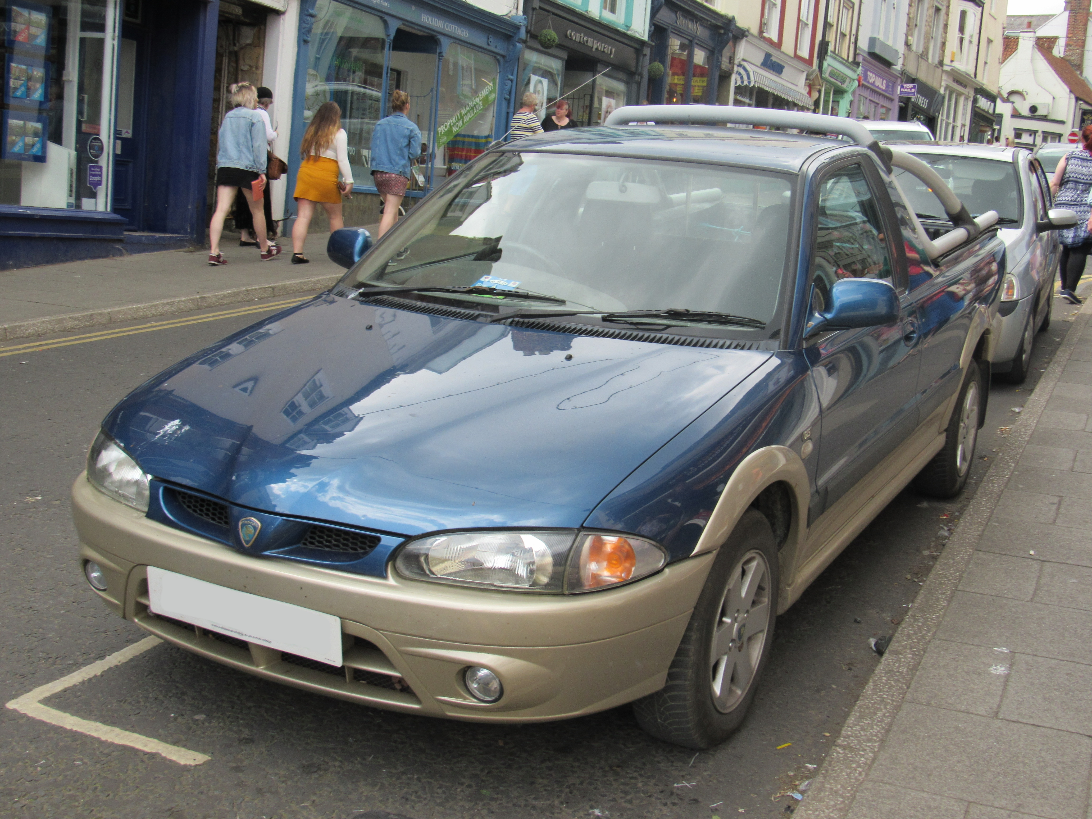 2005 Proton Jumpbuck GLS 1.5 Front Taken in Whitby, North Yorkshire